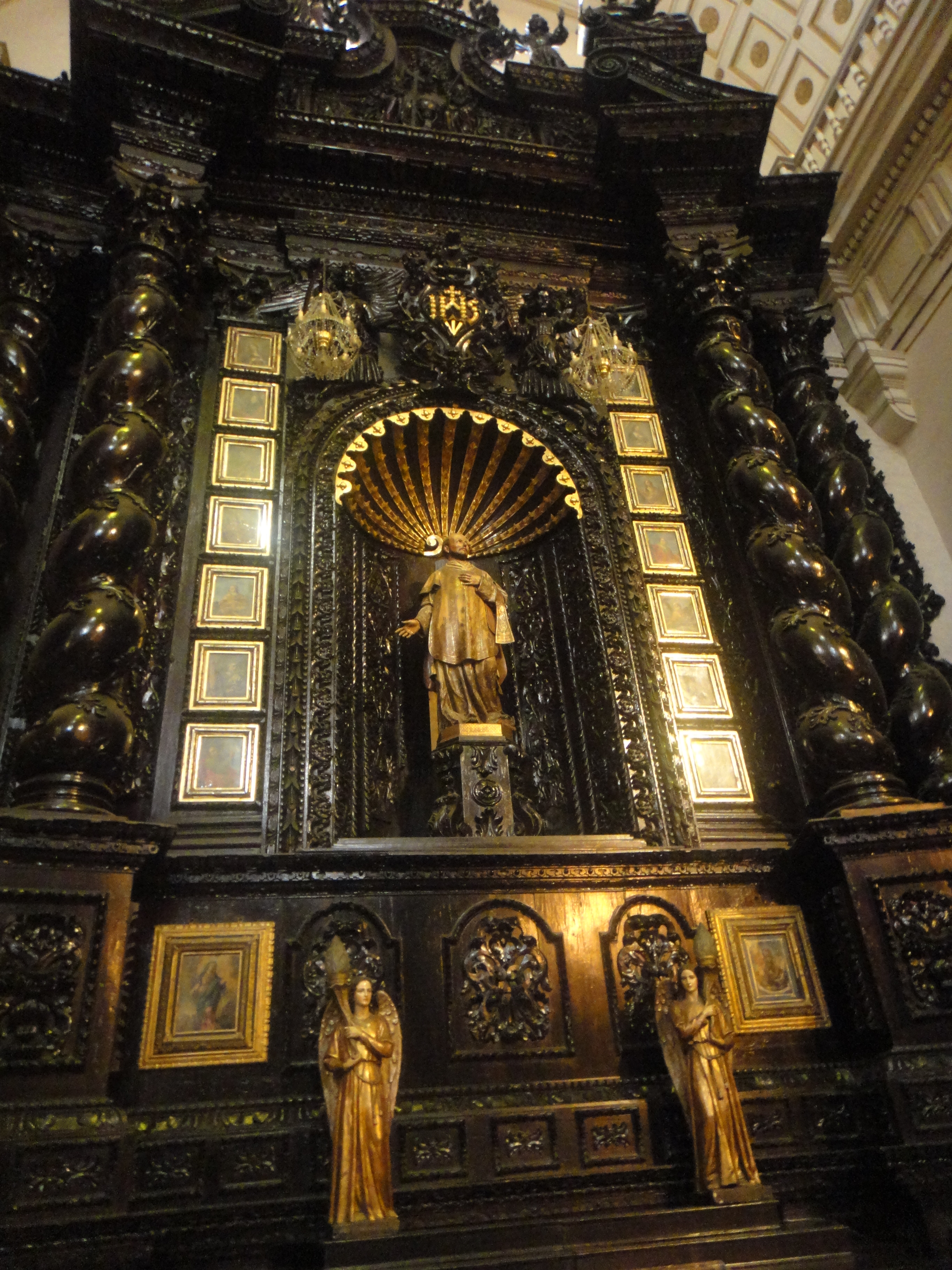 Altar of Saint Ignatius of Loyola in Saint Peter church, Lima-Peru.